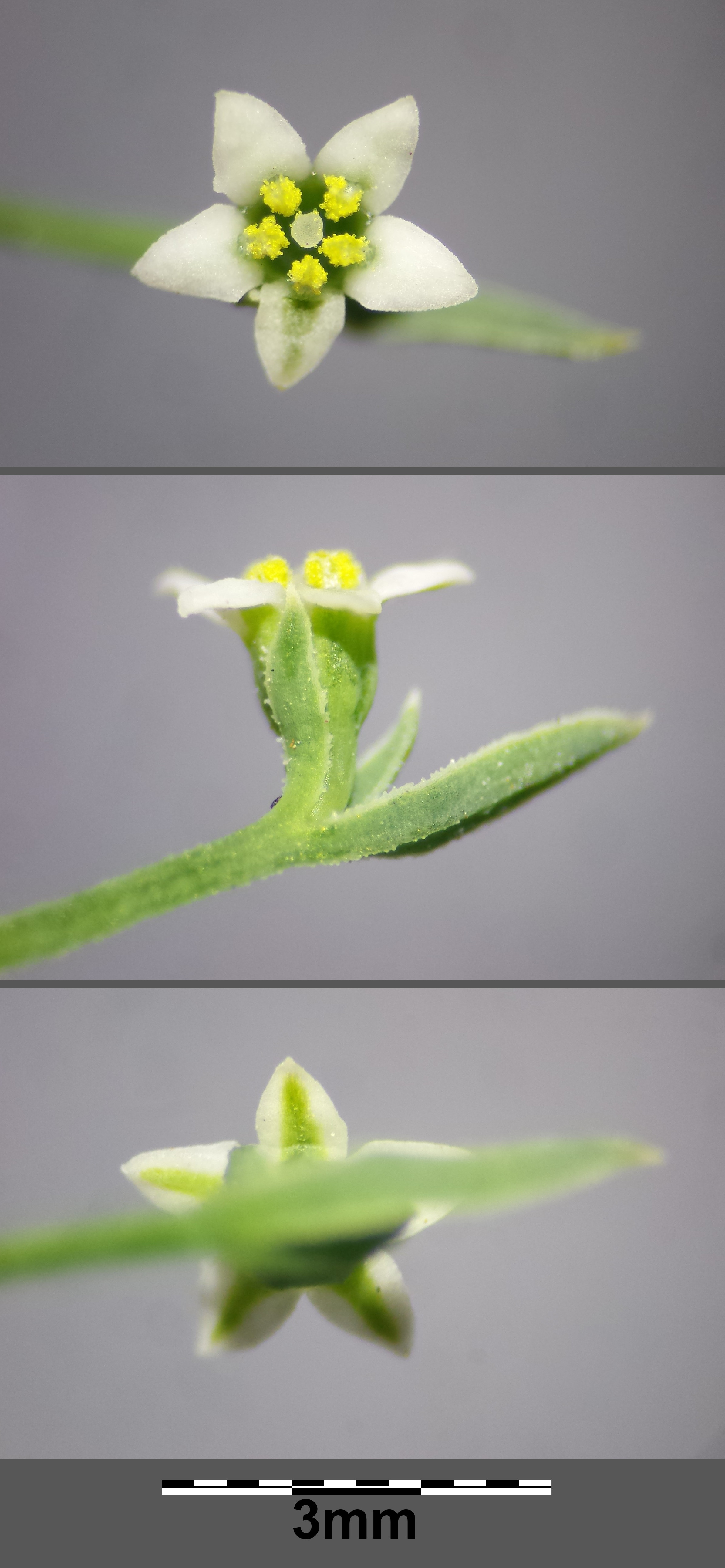 Flower Taxonym: Thesium ramosum ss Fischer et al. EfÖLS 2008 ISBN 978-3-85474-187-9 Location: Freudenauer Hafenstraße, Vienna-Leopoldstadt - ca. 150 m a.s.l. Habitat: dry, ruderal slope